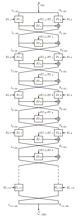 misty1 algorithm illustration